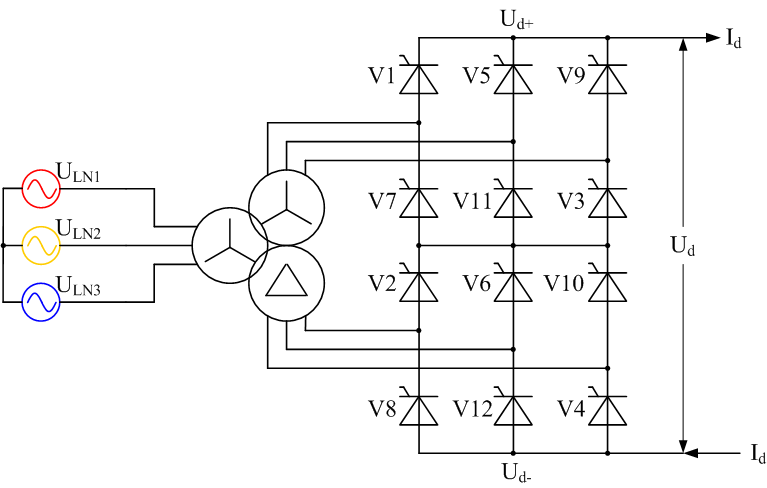 Simplified schematic of a twelve-pulse thyristor rectifier circuit with a YD11 transformer connection